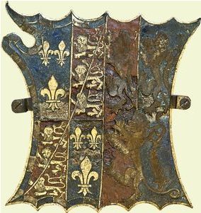 Garter stall plate of Charles Somerset, 1st Earl of Worcester (c.1460-1526) nominated 1499. His arms (arms of Beaufort with baston sinister) impale Per pale azure and gules, three lions rampant argent (Herbert, for his first wife, shown here apparently with field inverted as Per pale gules and azure). This is a spiked à bouche escutcheon (Terminology per Aveling, S.T. Heraldry: Ancient and Modern (New York, NY: Frederick Warne and Co., 1891). Charles Somerset, 1st Earl of Worcester, KG (c. 1460 – 15 March 1526) was the bastard son of Henry Beaufort, 3rd Duke of Somerset, by his mistress Joan Hill. His first wife was Elizabeth Herbert, 3rd Baroness Herbert (died pre-March 1513) (daughter of William Herbert, 2nd Earl of Pembroke, 2nd Baron Herbert) in right of whom he was created Lord Herbert.